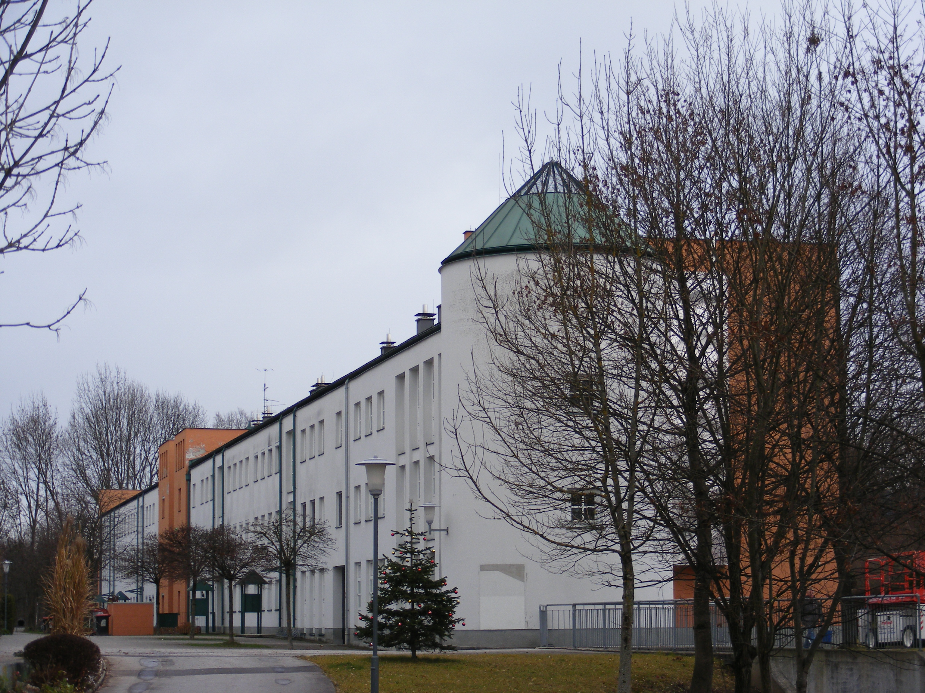 council settlement "Forellenweg", city of Salzburg, Austria